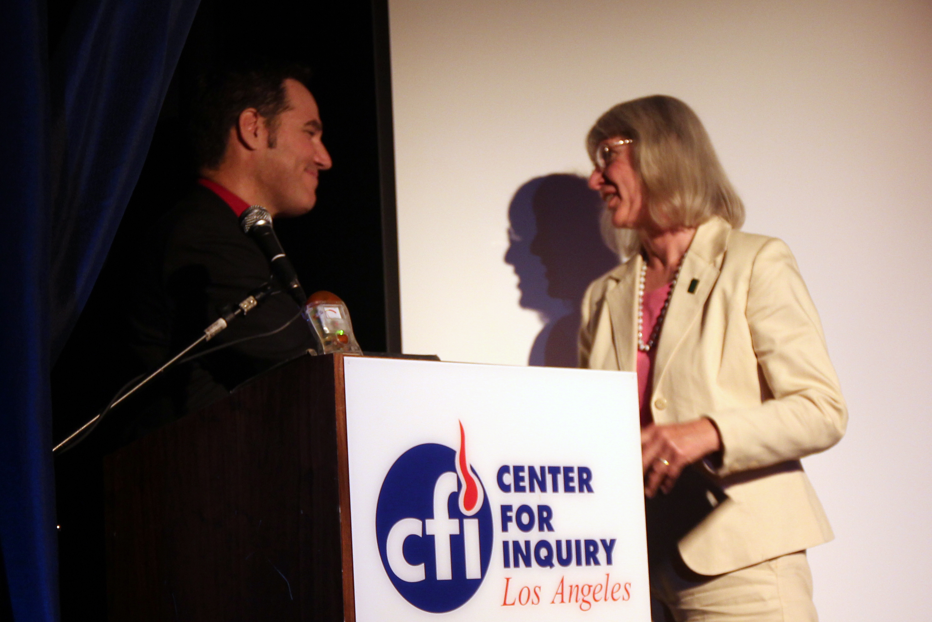 Dr. Eugenie Scott's work in science and skepticism is recognized by IIG West at the 10th Anniversary, CFI Headquarters, Hollywood